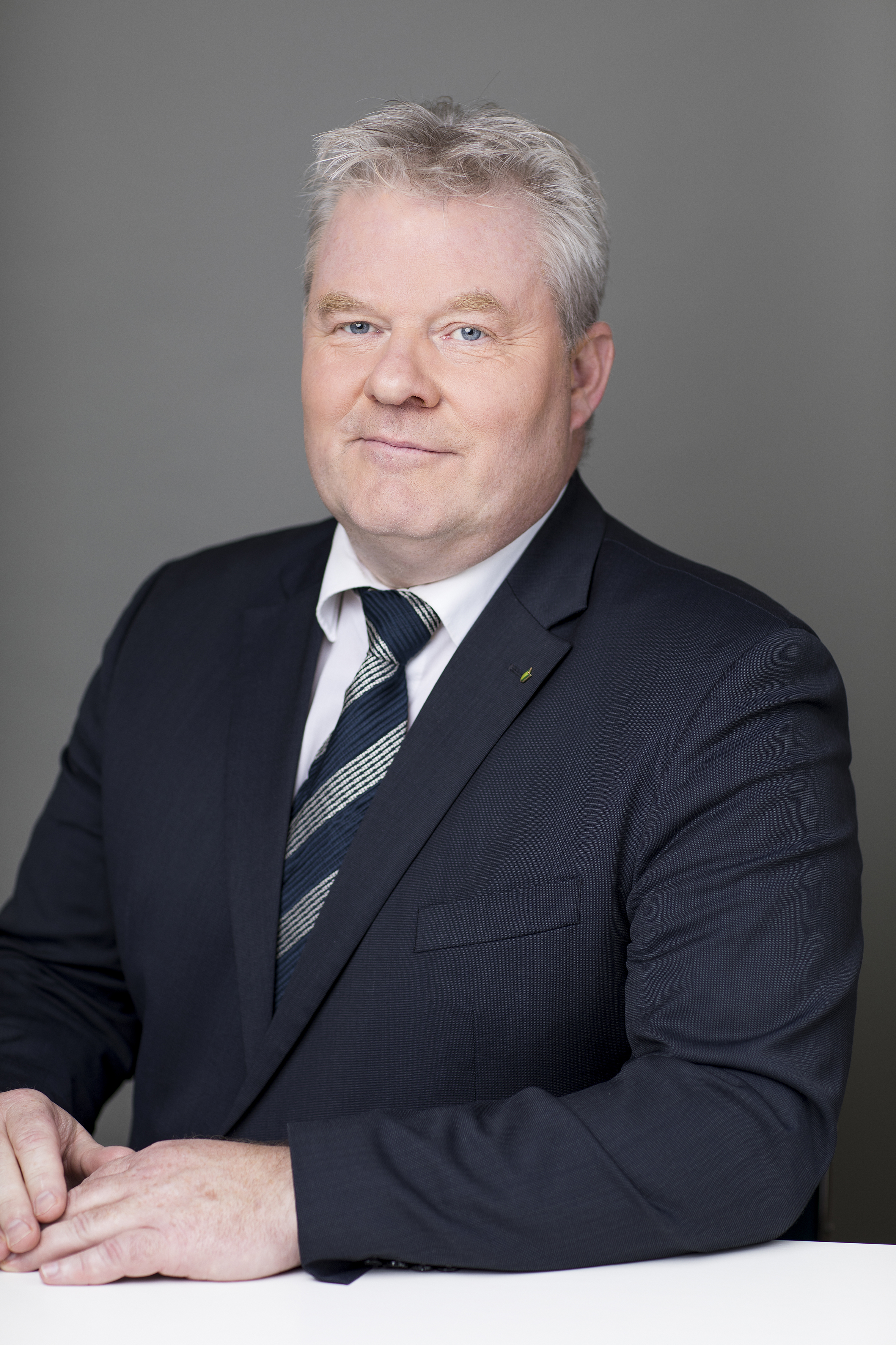 Sigurður Ingi, Progressive Party (Iceland)